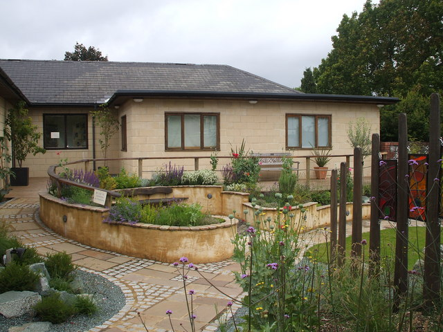 The Sensory Garden at St Christopher's School This is in the grounds of St Christopher's School Westbury Park. A school for children with special needs.